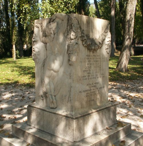 Private photo taken and uploaded by user Jeffmatt| 10:35, 6 October 2006 (UTC). No rights claimed. Private photo taken and uploaded by user Jeffmatt 10:35, 6 October 2006 (UTC). No rights claimed.